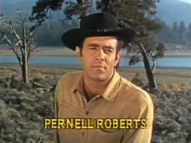 Cropped screenshot of Pernell Roberts from the television series Bonanza. Episode: "Bitter Water" (1960).